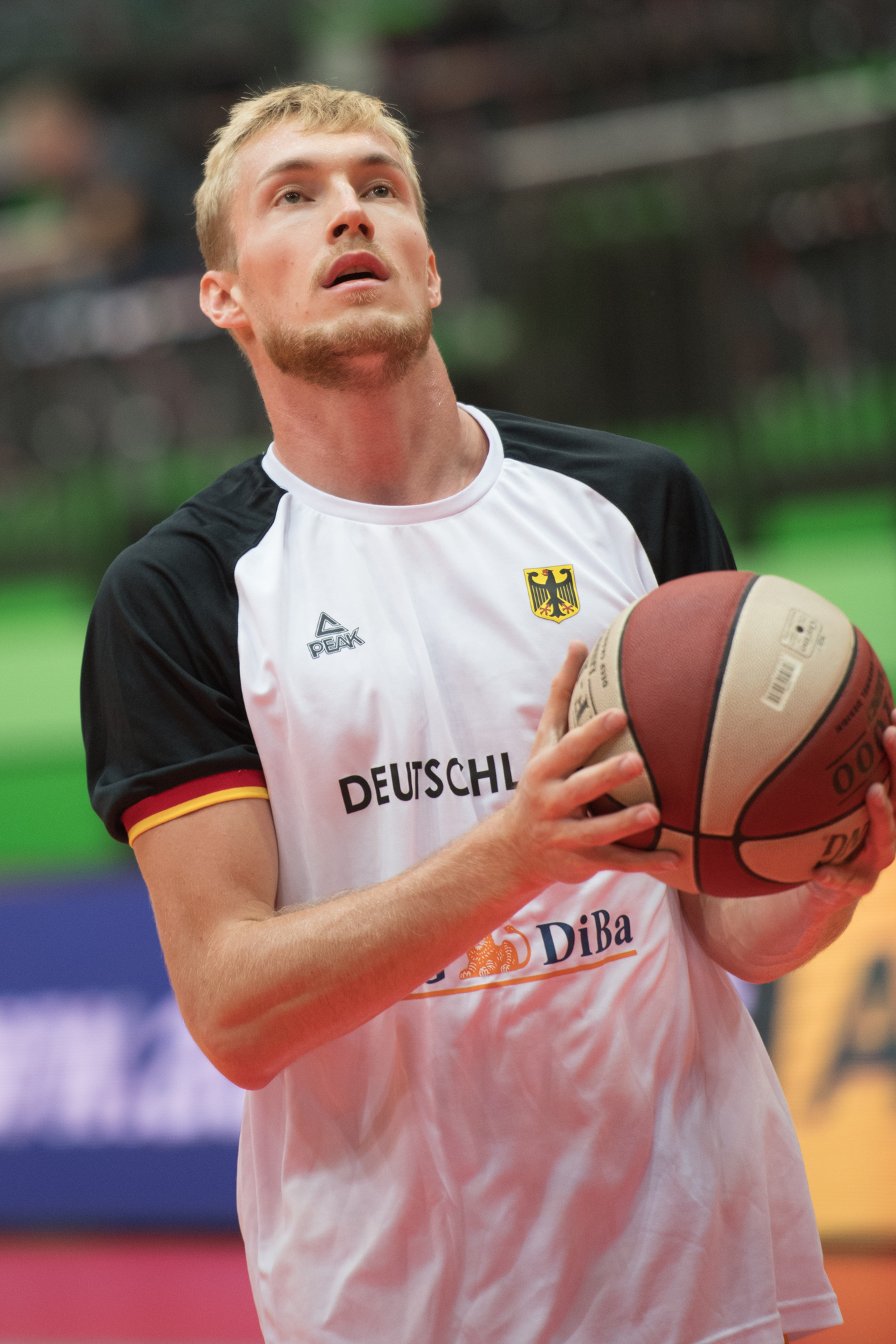 EuroBasket 2017 Qualification Austria vs Germany, Schwechat, Lower Austria, 2016-09-03.